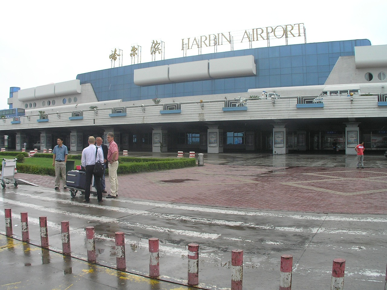 哈尔滨太平国际机场、英文表記: Harbin Taiping International Airport